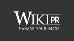 Wiki-PR's logo